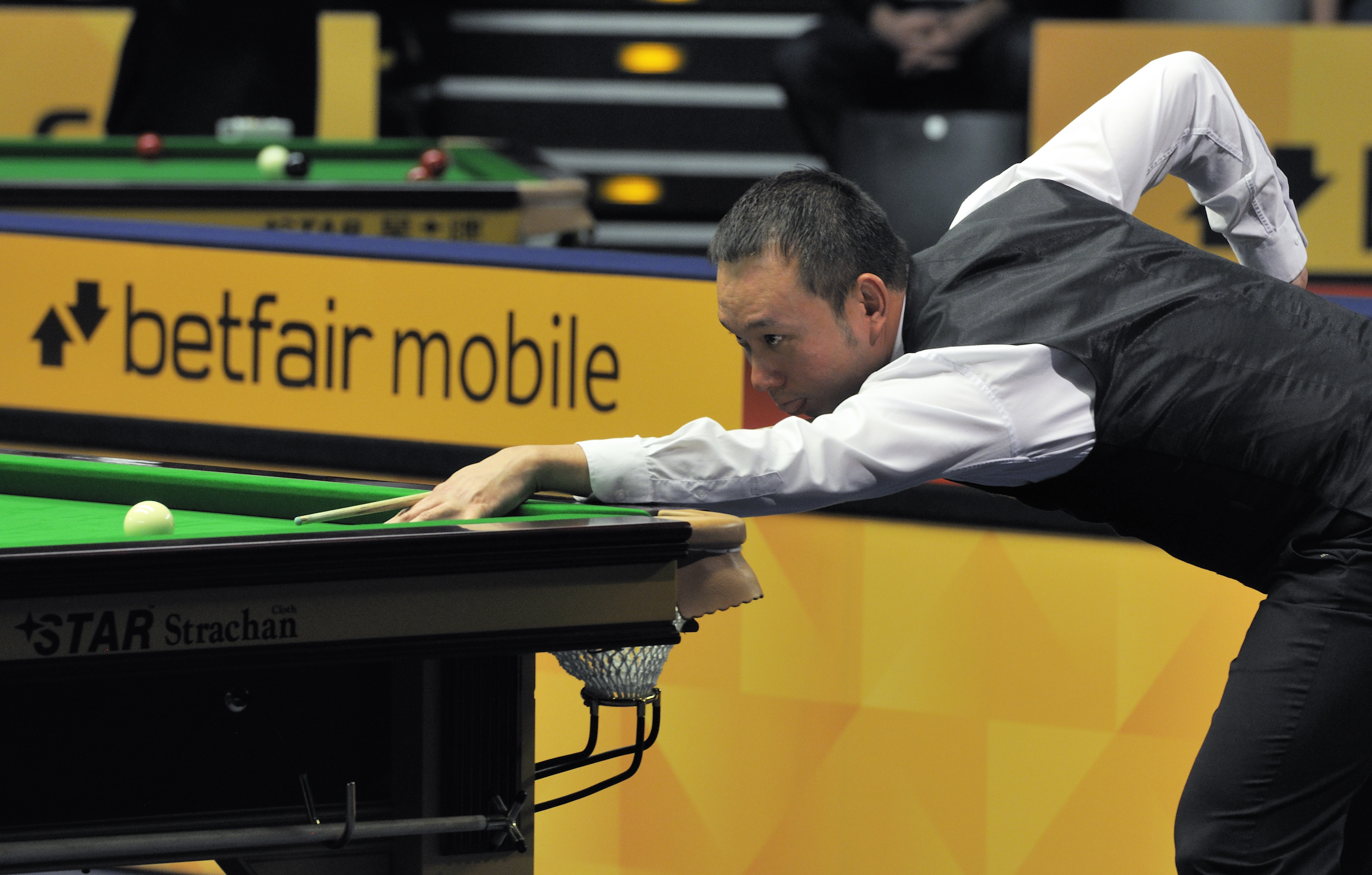 Picture taken in Berlin during the Snooker German Masters in 2013. James Wattana.